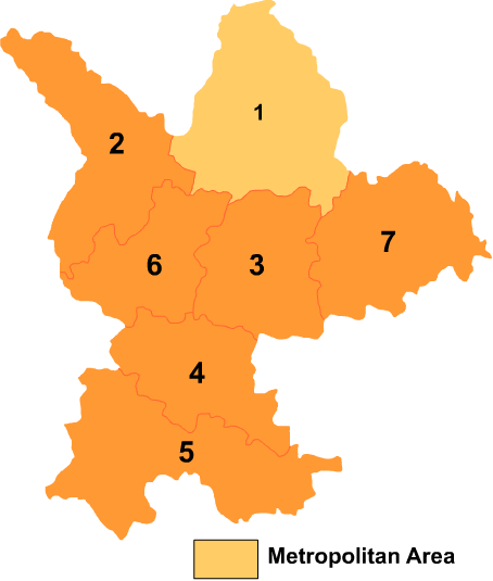 Map of Dingxi in Gansu province